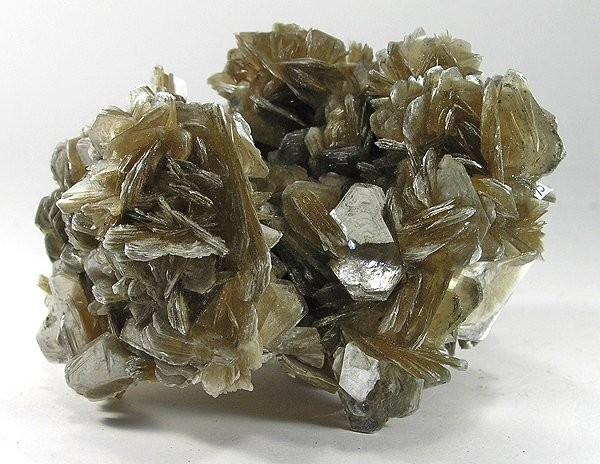 Muscovite Locality: Minas Gerais, Southeast Region, Brazil (Locality at ) A dazzling cluster of lustrous, TRANSLUCENT muscovite crystals, like some sort of flashy golden flower - from Brazil. 9.6 x 7.7 x 7.0cm